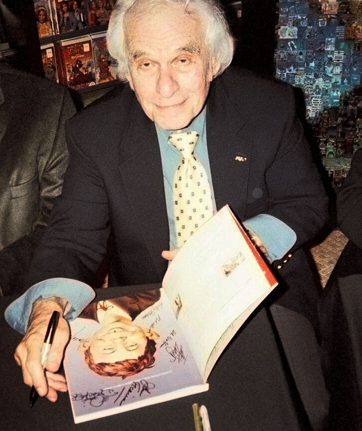 Artist Mort Drucker signing autographs at Mad Magazine's 400th issue celebration in Manhattan. The event took place in the year 2000 at the late Warner Bros Studio Store on One East 57th Street (5th Avenue), New York, NY